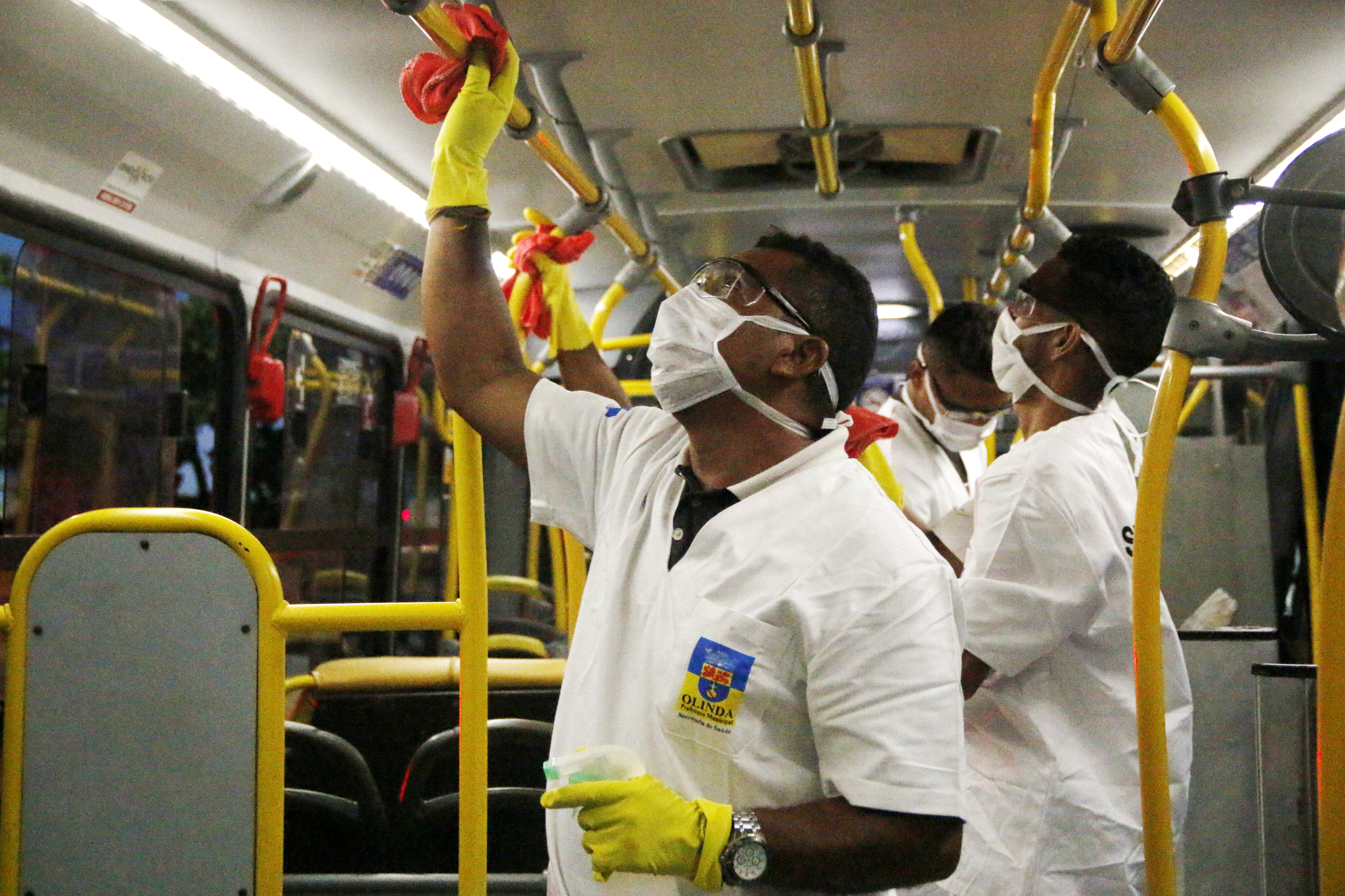 Training of health professionals who will work at bus terminals in Olinda, Pernambuco, Brazil. Officials work from 6am to 10pm at the Rio Doce and Xambá terminals.